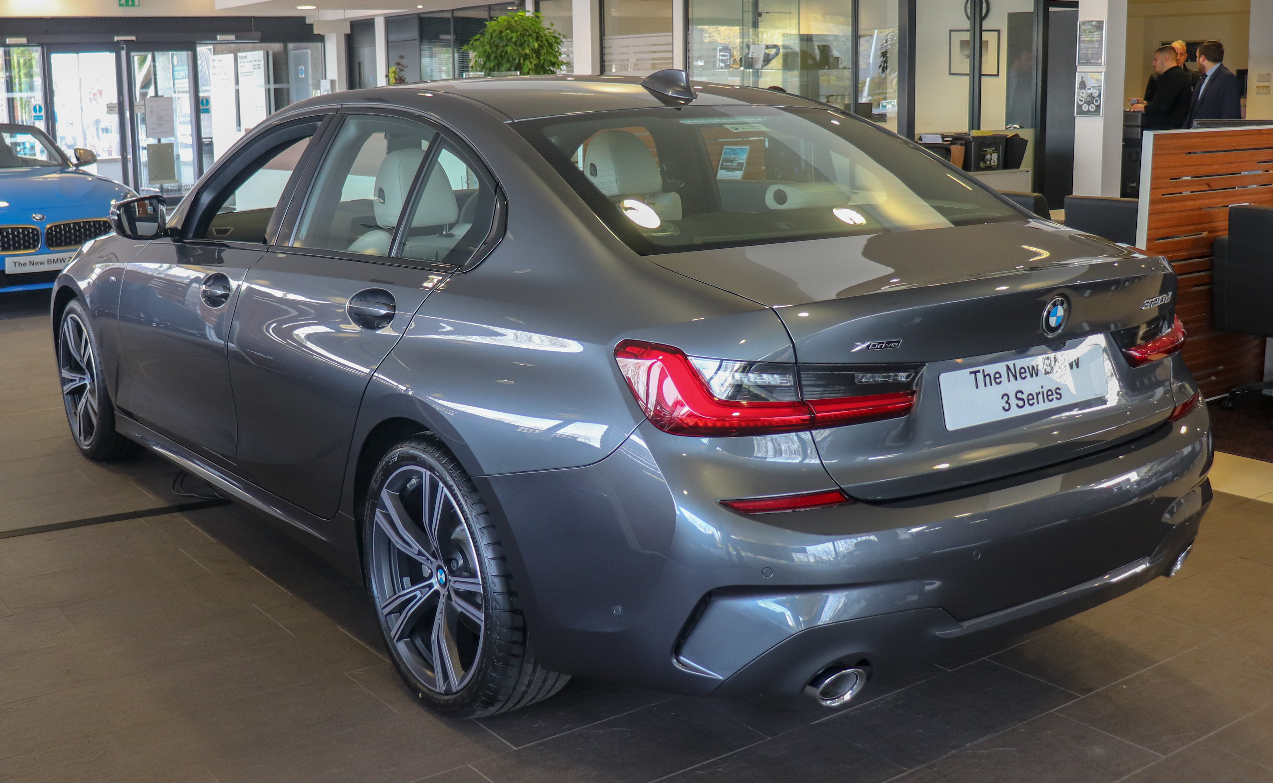 2019 BMW 320d xDrive M Sport 2.0 Rear Taken in Leamington Spa